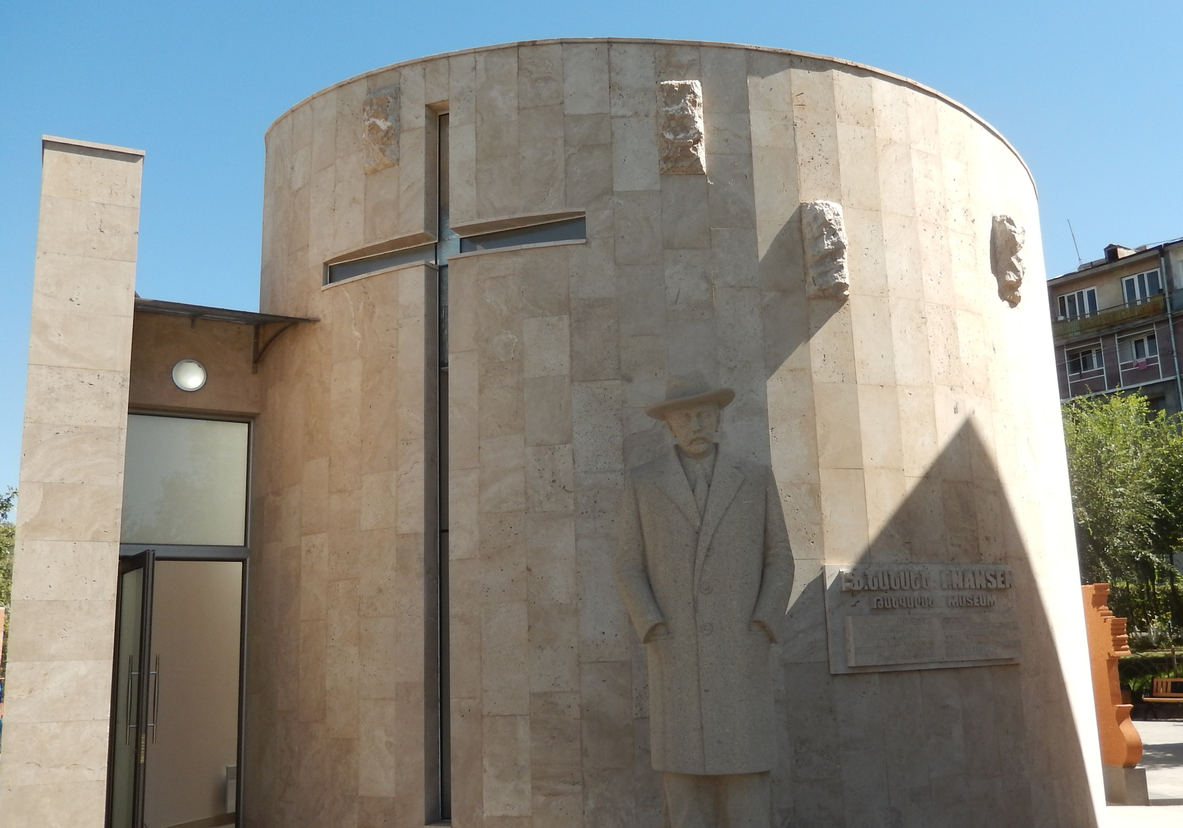 Nansen Museum, Yerevan